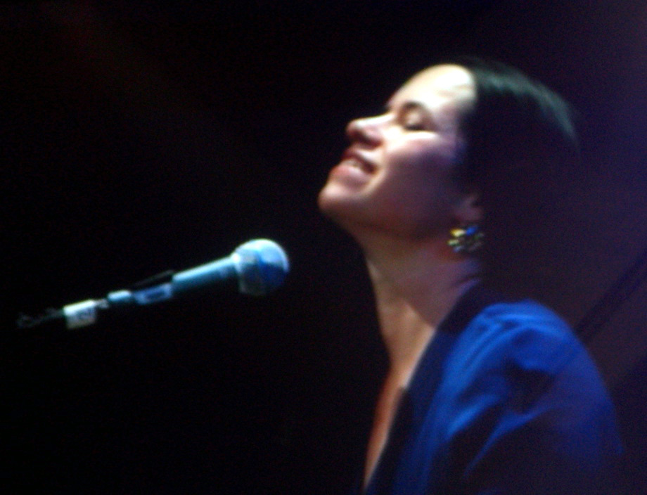 Natalie Merchant performing These are Days